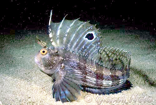 Blennius ocellaris photographed in the Strait of Messina (Sicily, Italy). Photo by Gianni Neto.